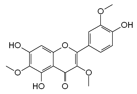 chemical structure of jaceidin